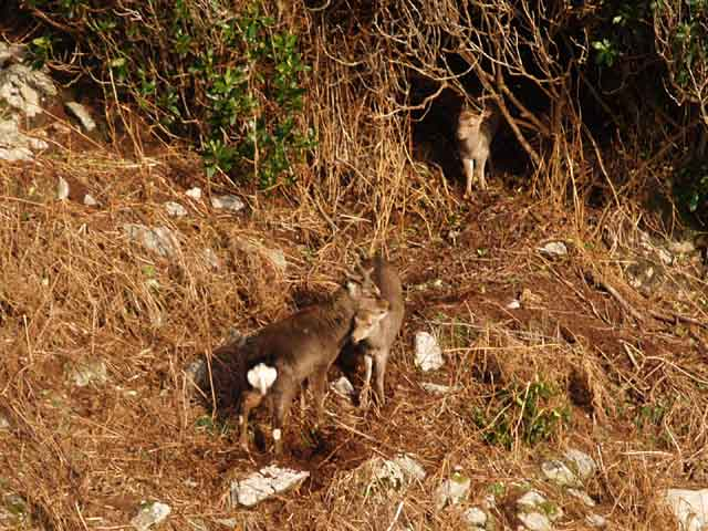 Sika Deer, East Sidelands, Lundy Sika deer were introduced to Lundy in 1927.